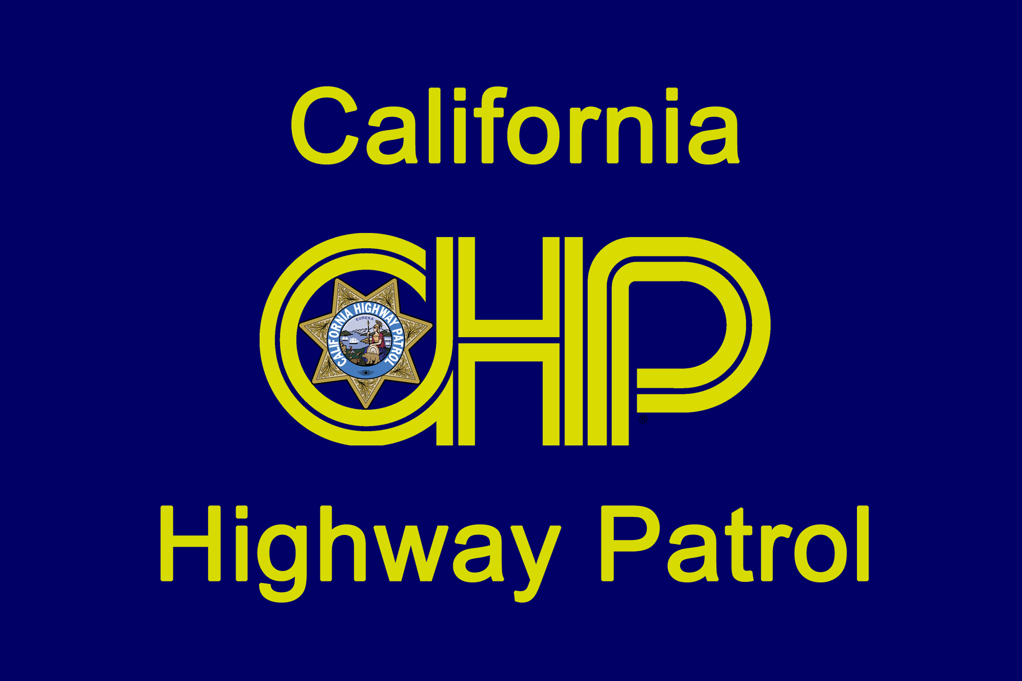 Flag of the California Highway Patrol